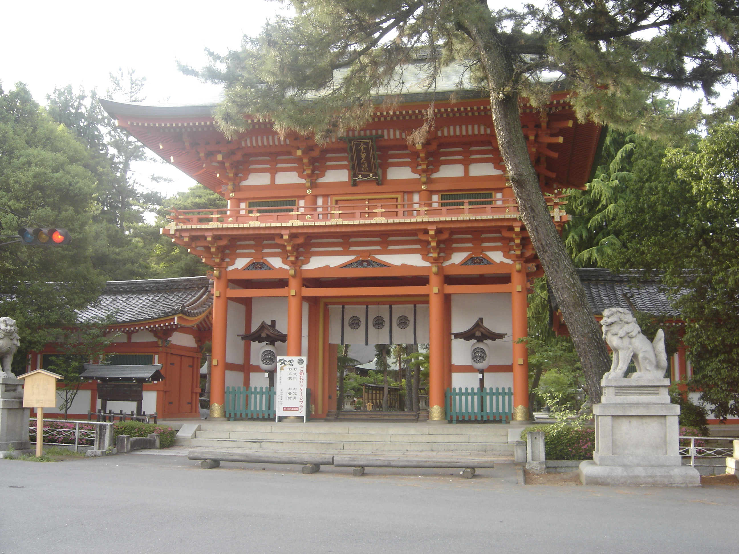 The gate located at the main entrance of Imamiya Shrine